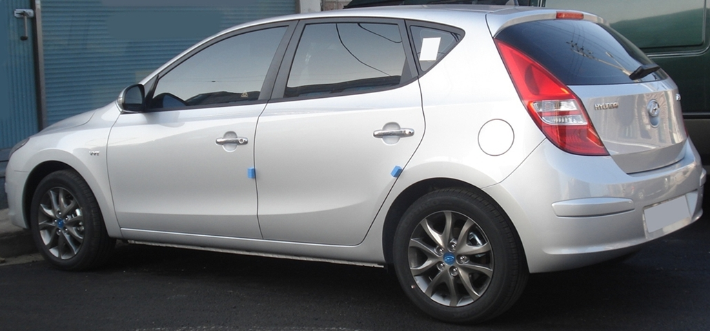 Hyundai i30